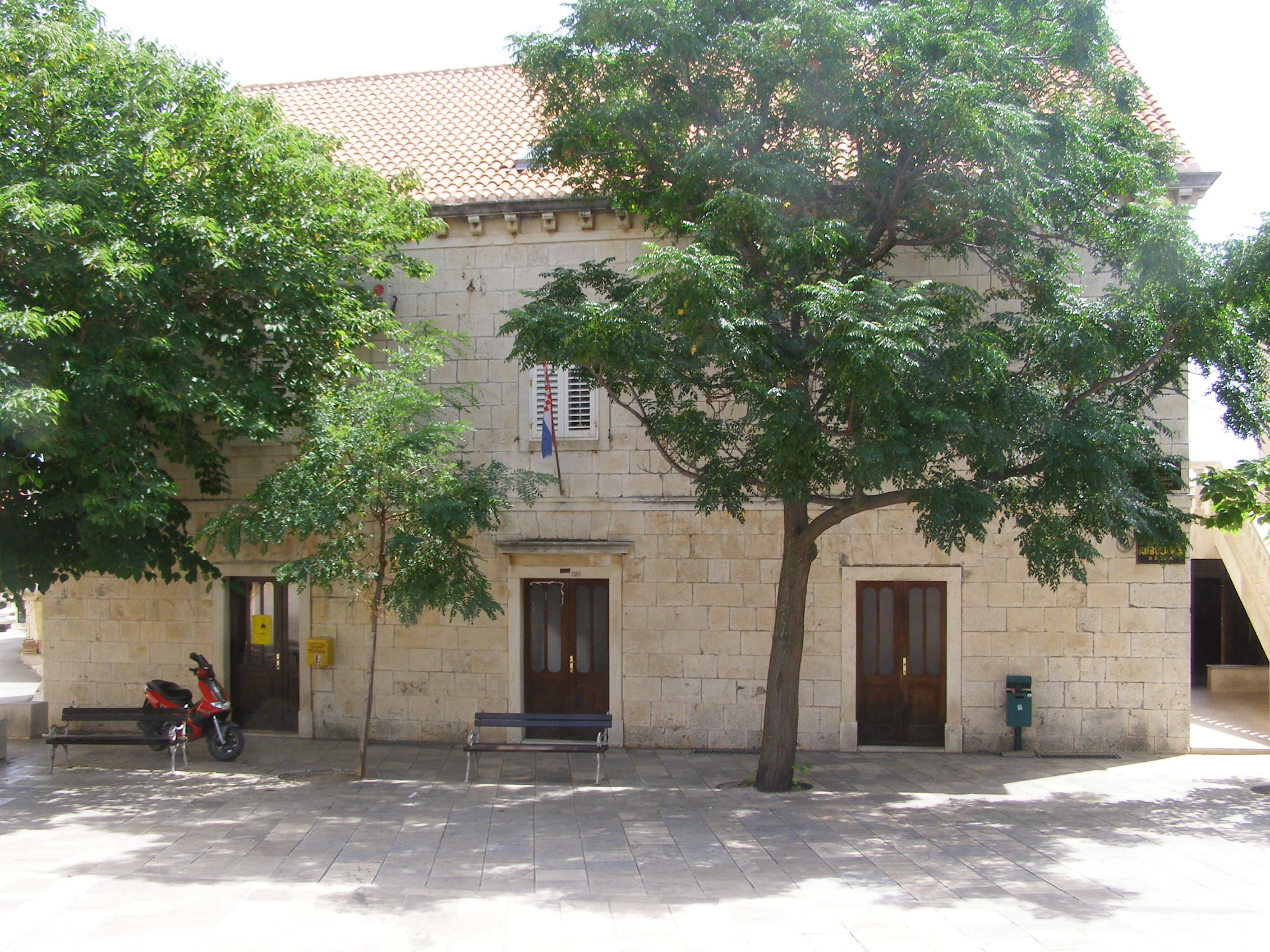 Municipality house of Selca (and previously home of Slovak writer Martin Kukučín), Selca, Brač Island, Croatia